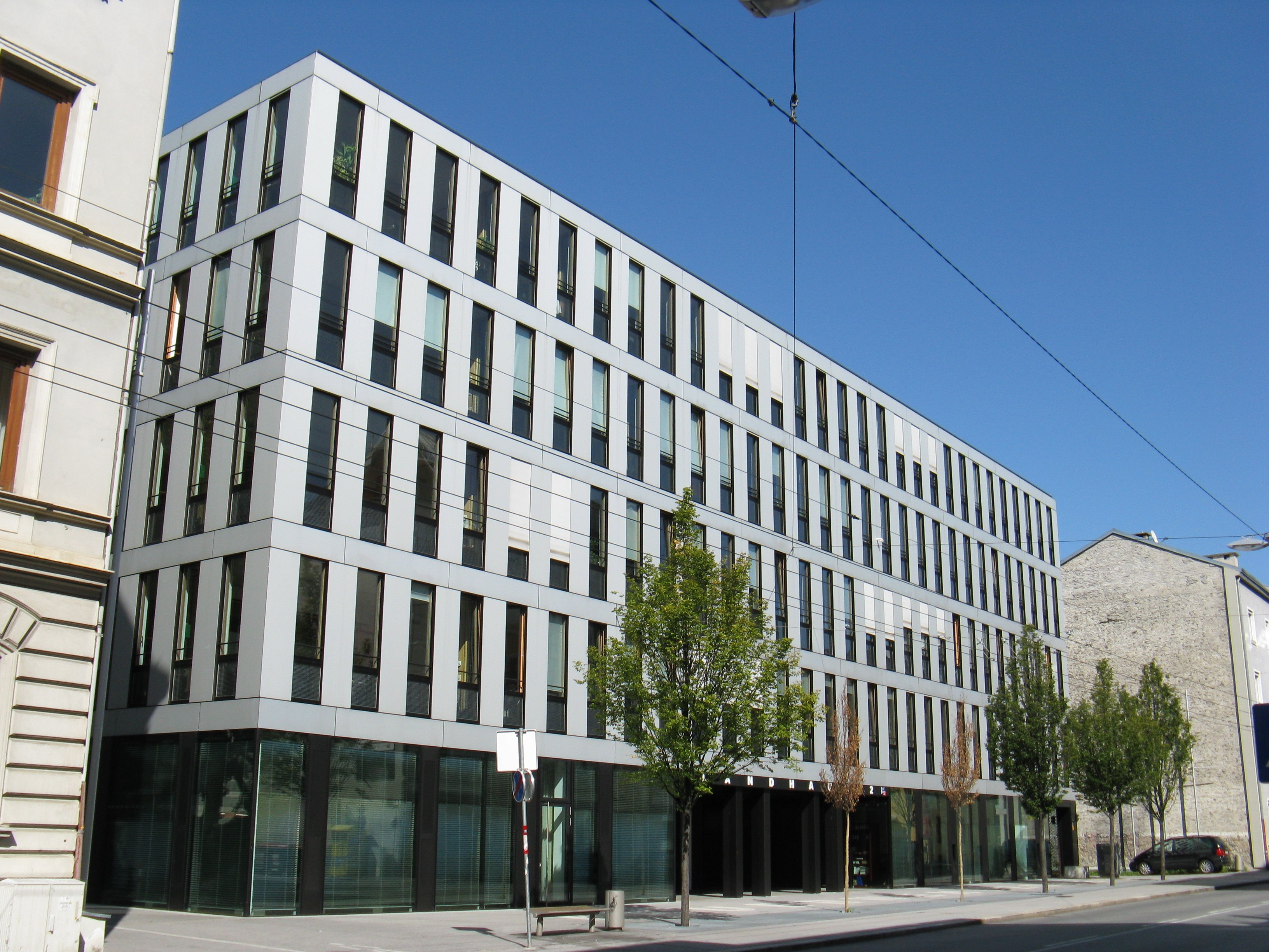 Landhaus 2 building in Innsbruck